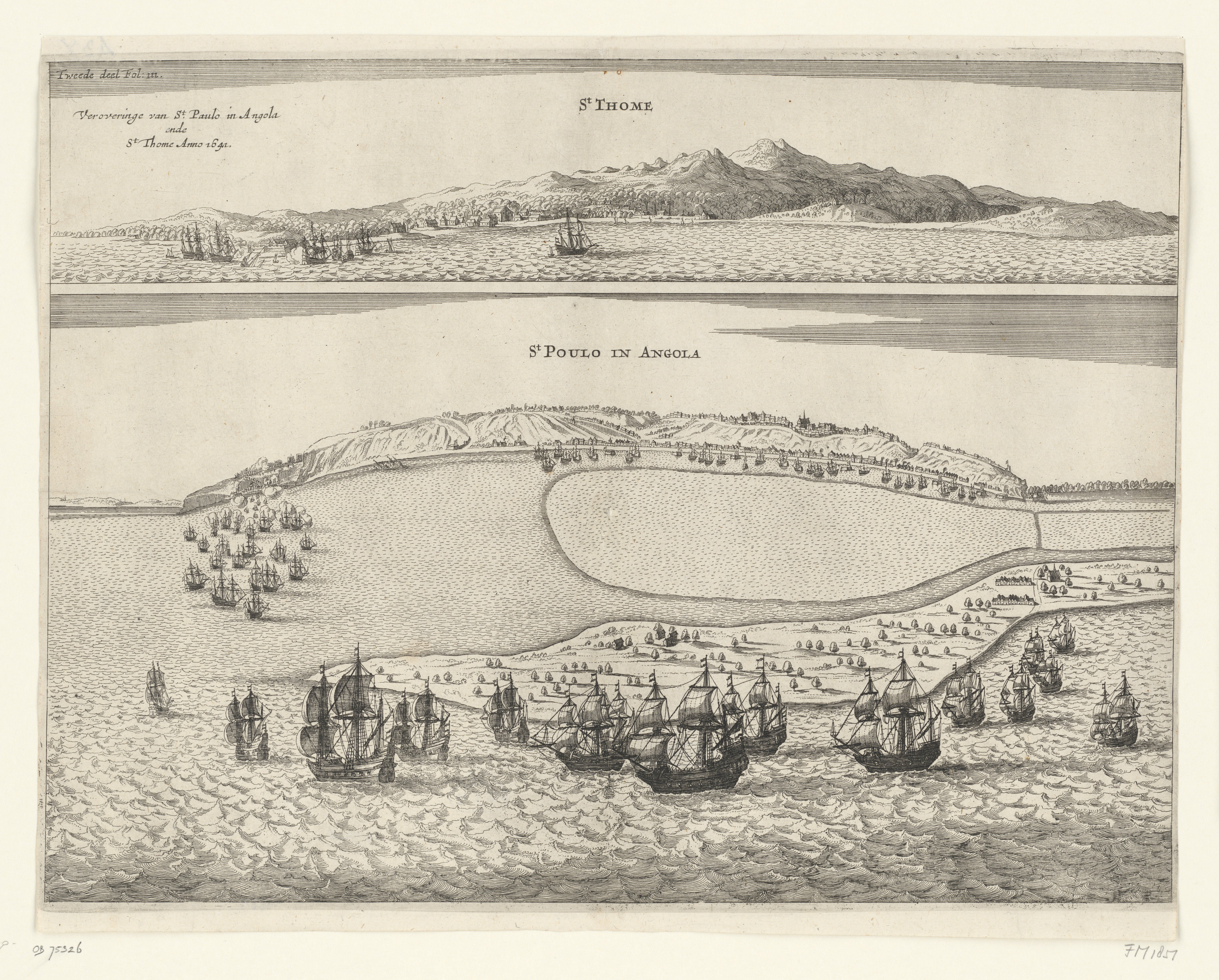 Conquest of Luanda and Sao Tomé by Cornelis Jol, 1641